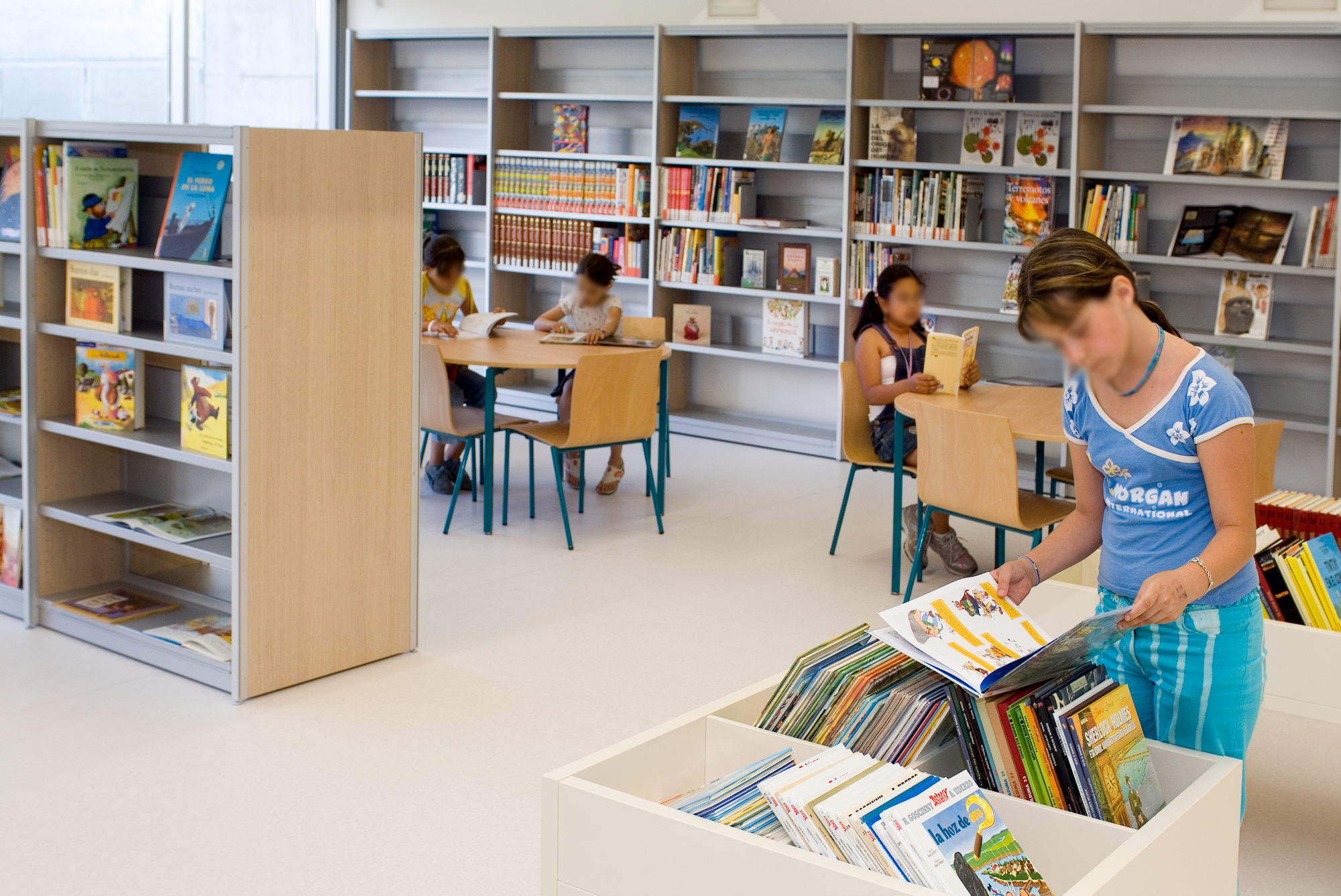 Public Library of San Jorge, a neighborhood of Pamplona/Iruñea. It was created in 1980, which was placed in the Public School San Jorge, to move in 2006 to its current location: Dr. Gortari Street 2. It is integrated into the Library Service of the Department of Culture and Tourism of the Government of Navarre. Also, the Pamplona City Council is also involved in its management through a collaboration agreement.